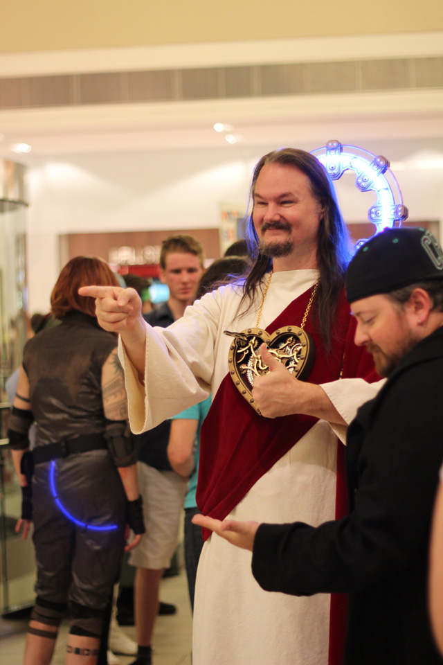 Dragon Con 2014 Buddy Christ Steampunk Jesus Cosplay at Dragon Con 2014.